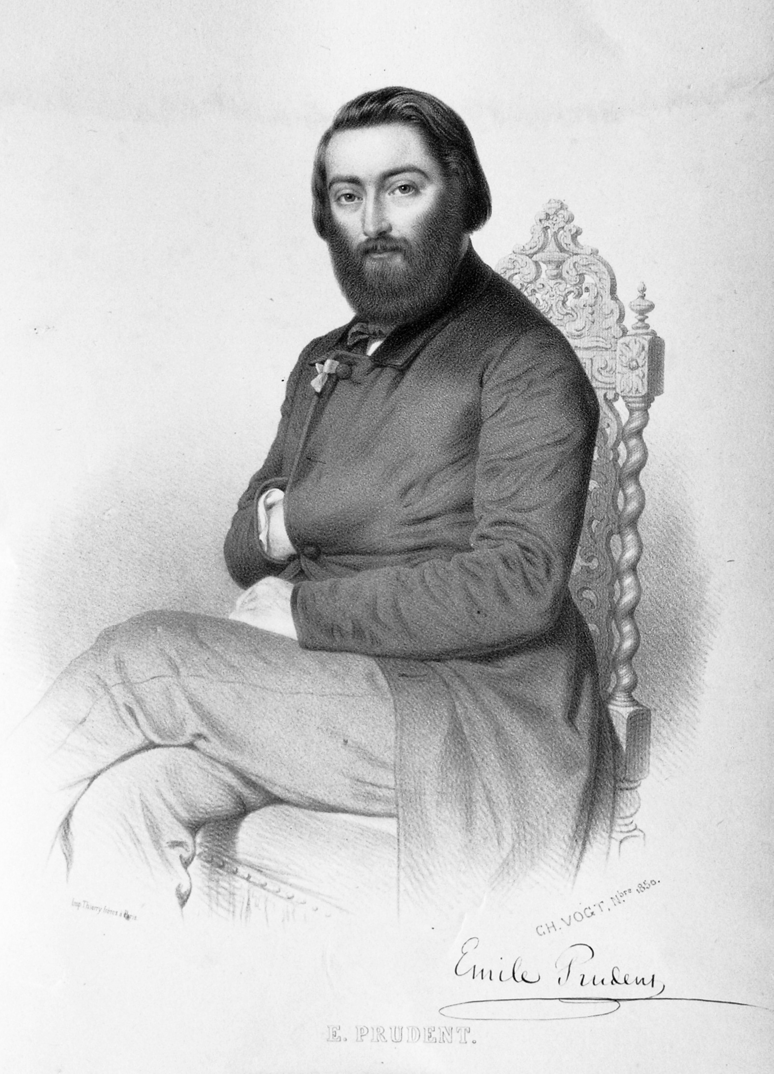 Émile Prudent, pianist